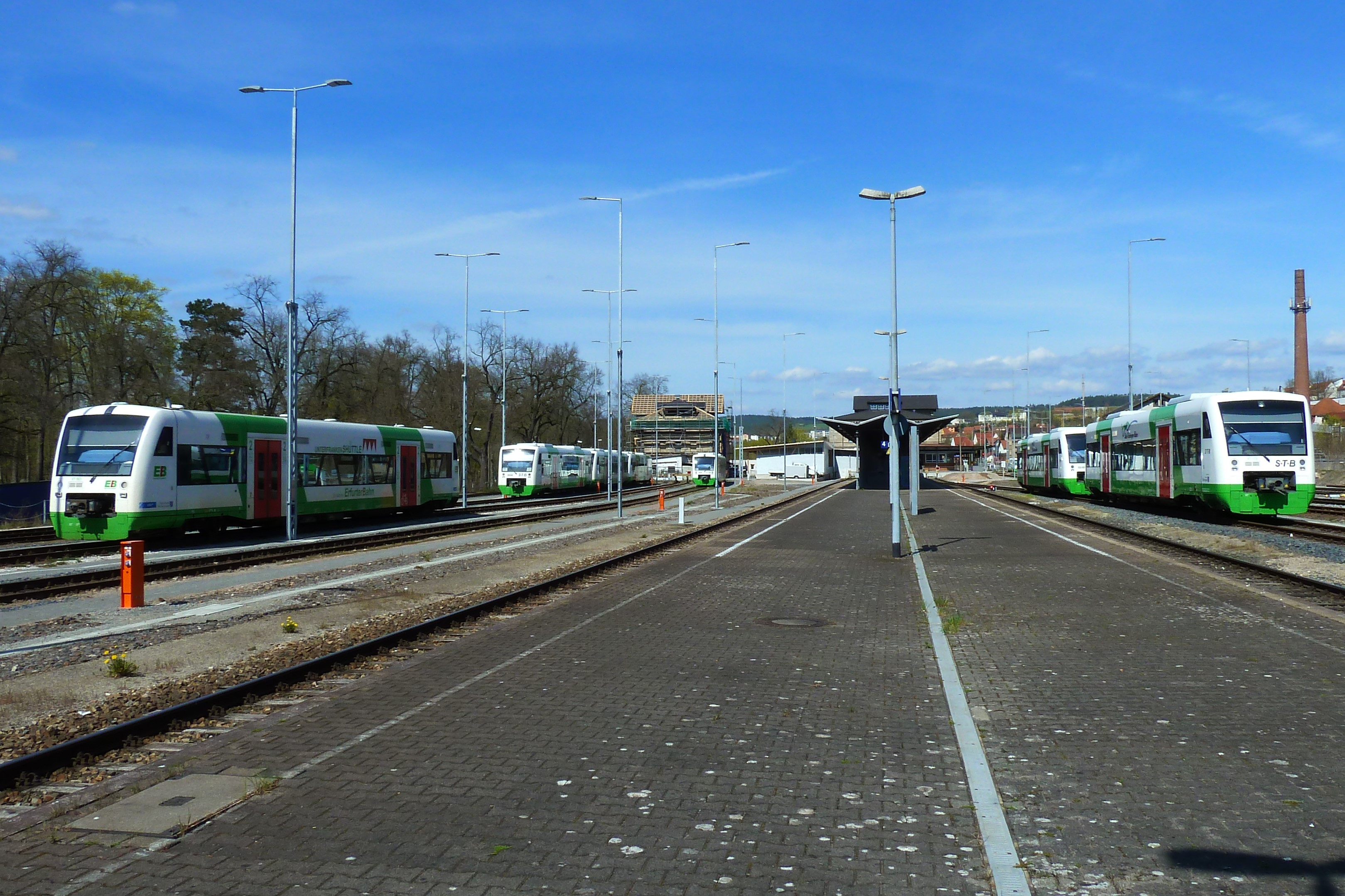 Railway station „Bayerischer Bahnhof“ in city Meiningen, Germany.